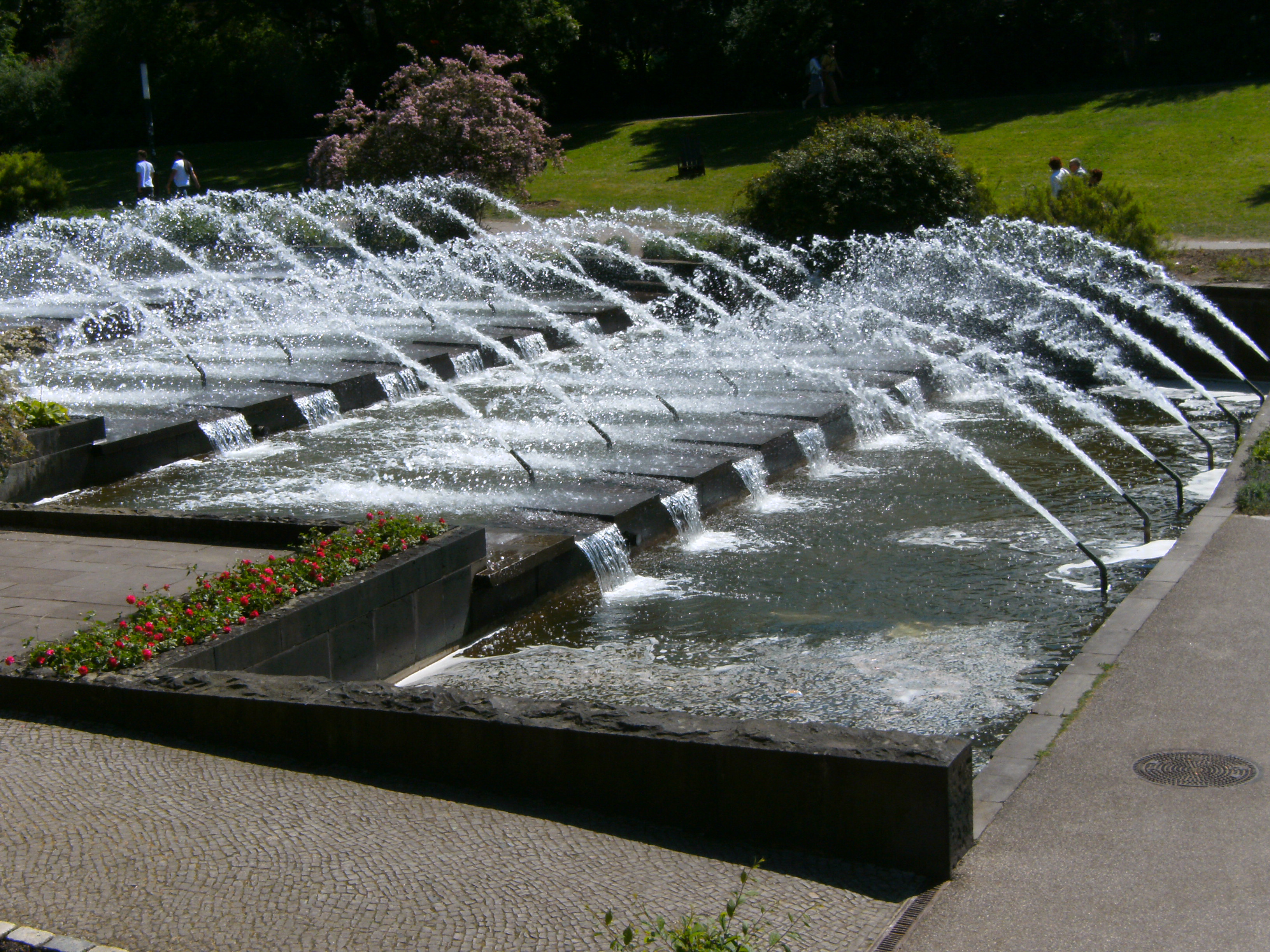 Hamburg, Germany, Planten un Blomen: Wassertreppe (water staircase) beneath Sievekingplatz/corner Gorch-Fock-Platz.